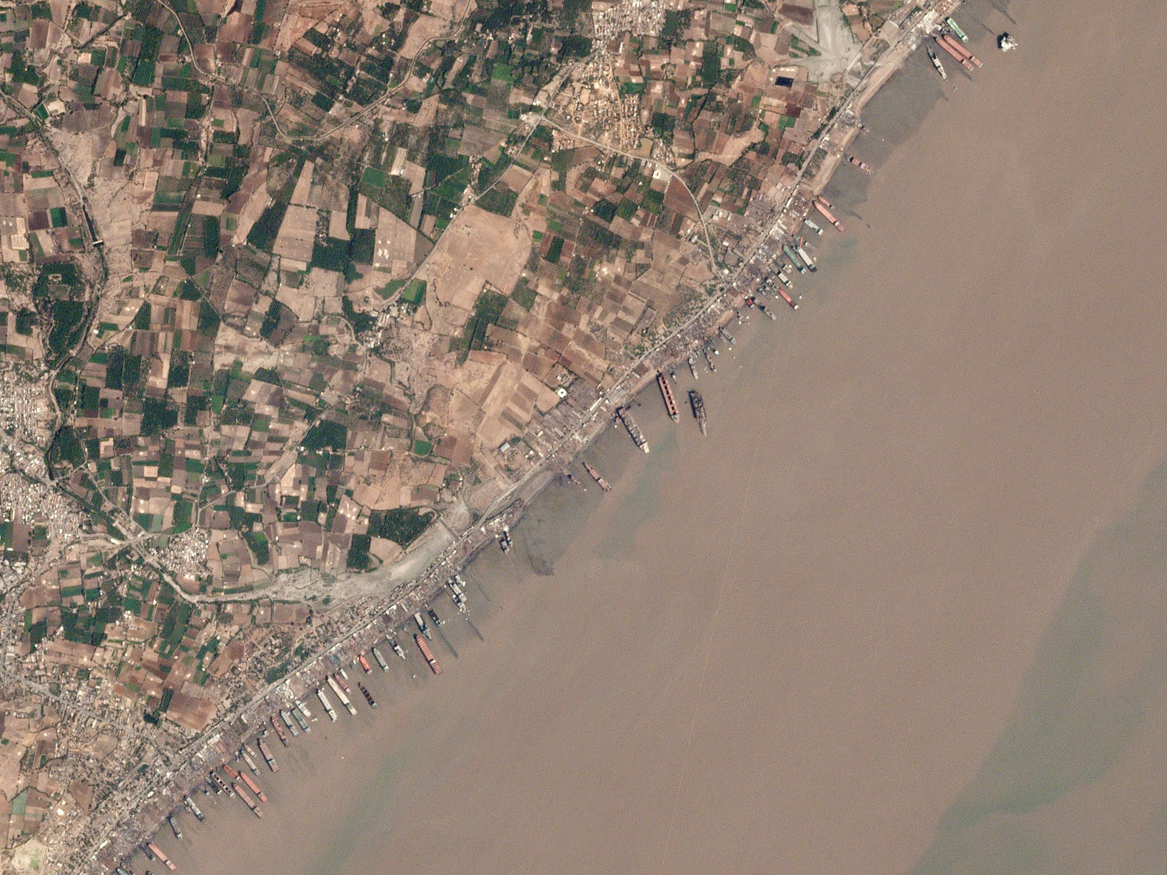 Alang, India March 17, 2017 When one of the world’s ships reaches the end of its useful life, it often ends up on one of three beaches in Southeast Asia—Alang India, Gadani Pakistan, or Chittagong Bangladesh. The ships are grounded at high tide, then slowly disassembled with blowtorches and crowbars. Steel recovered from the ships’ hulls helps feed the construction industry in these developing economies. These four pictures from Planet’s satellites show Alang Beach on March 4, 15, 17, and 23, 2017. The images show old ships vanishing, new ships arriving, and the pace of deconstruction. They may help verify estimates of the amount of steel these activities provide to the local economy.